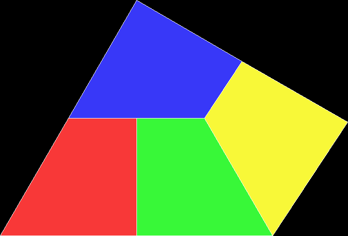 A rep-tile tridrafter, or shape created from three 30-60-90° triangles that can be divided into smaller copies of itself.